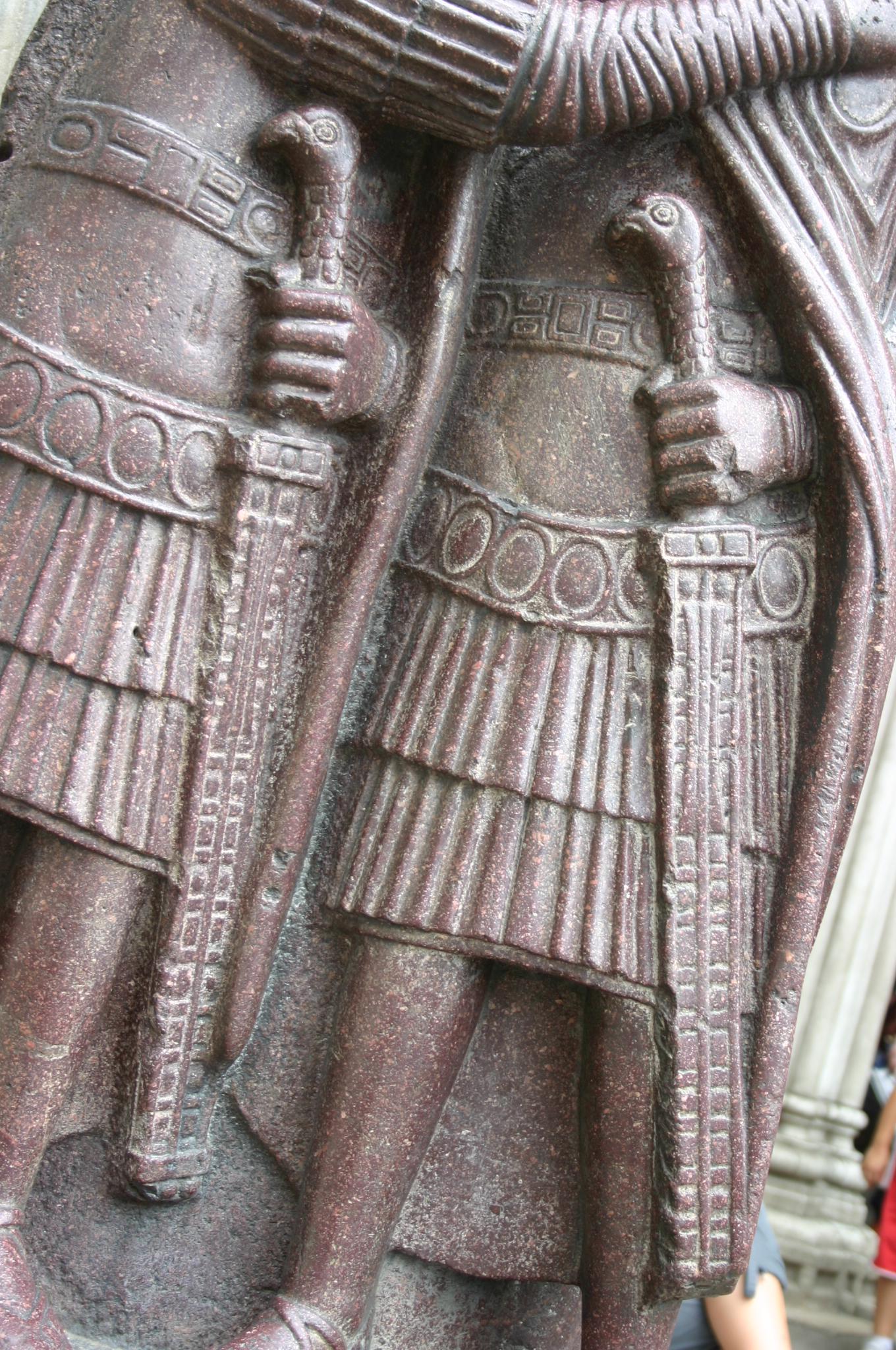 Detail of the swords of the front couple of the Tetrarchs of the porphyry sculpture, dating from the 4th century, produced in Asia Minor, today on a corner of Saint Mark's in Venice, next to the "Porta della Carta". The tetrarchs (from the Greek words for "Four rules") were the four co-rulers that governed the Roman Empire as long as Diocletian's reform lasted. Picture by Giovanni Dall'Orto, August 8, 2007.